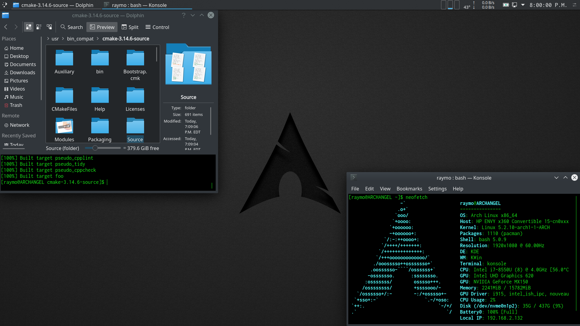 KDE Plasma running on Arch Linux. Shown are Konsole and Dolphin, two of KDE's core application windows